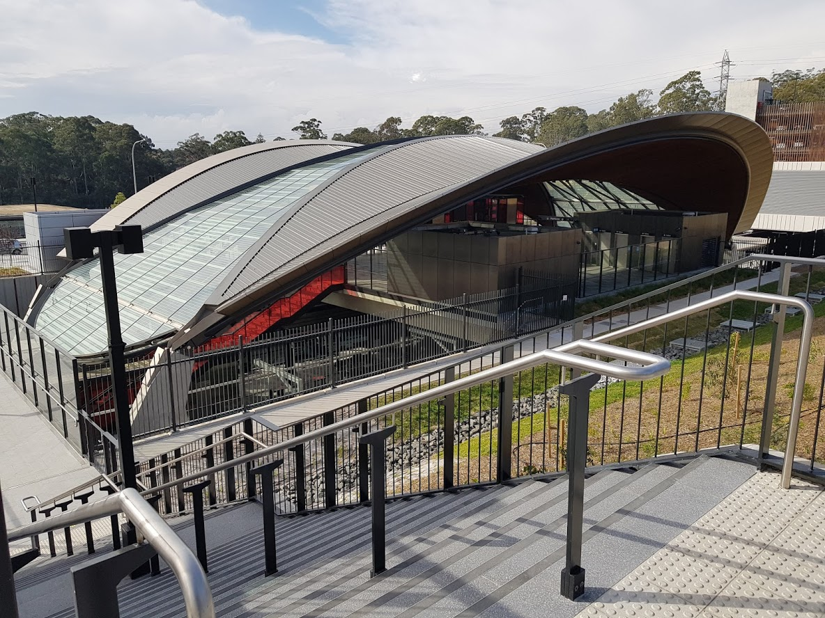 Cherrybrook railway station 4